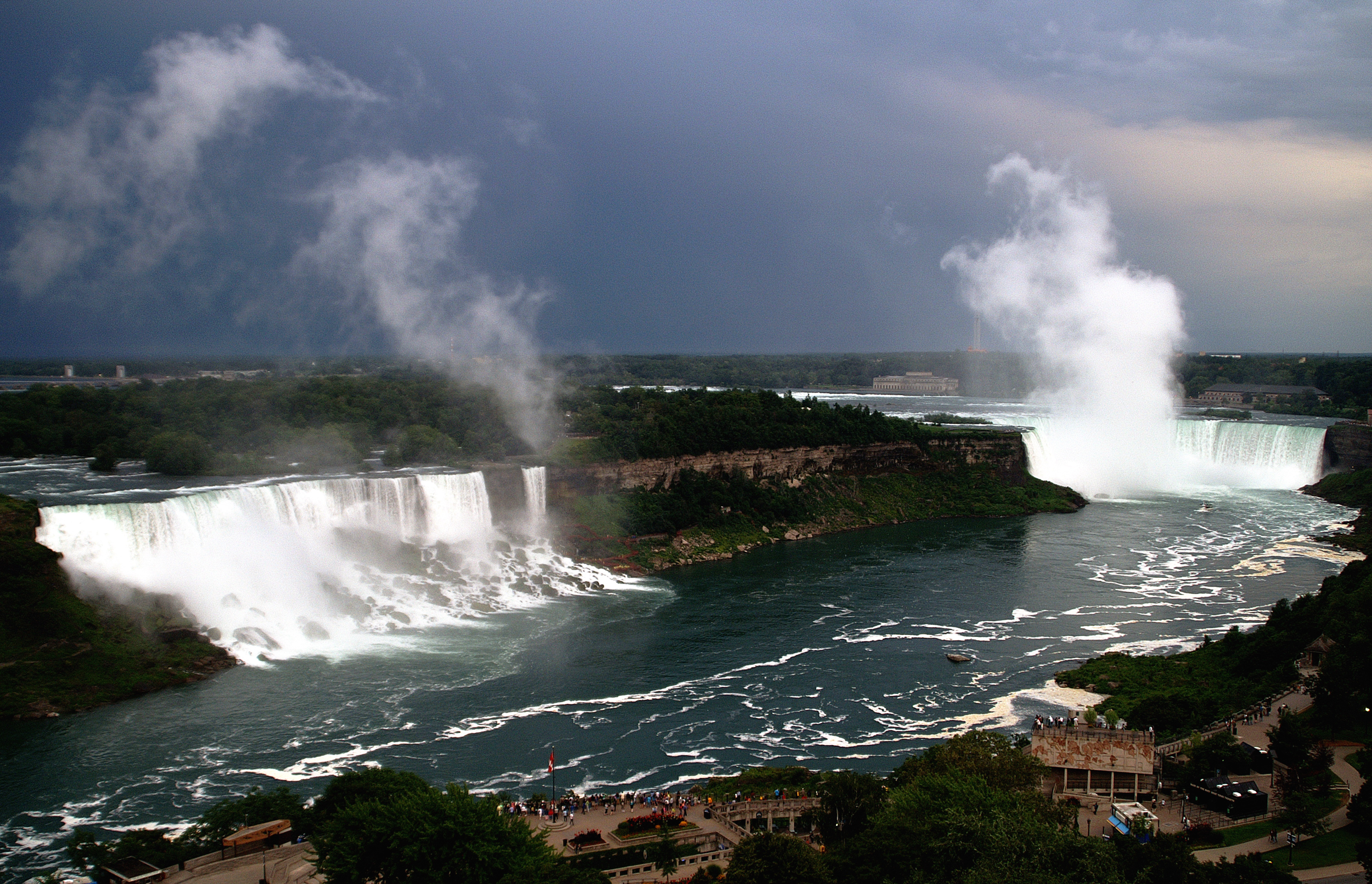 A storm passes behind Niagara Falls.